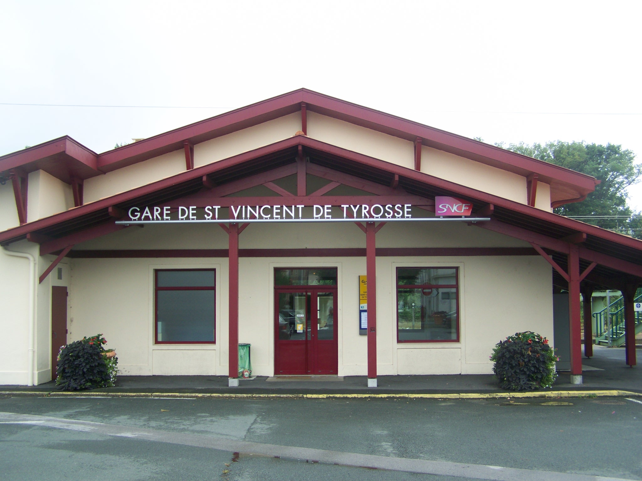 Facade and entrance of Saint-Vincent de Tyrosse railway station, in the Landes, France.